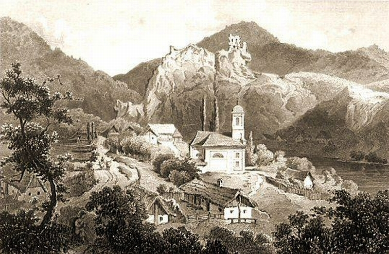 A view of the Szarvaskó in 19th Century.